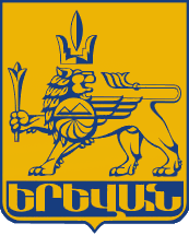 Seal of Yerevan